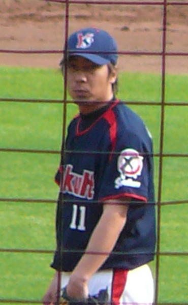 Shingo Takatsu, pitcher of the Tokyo Yakult Swallows, at Kobe Sports Park Baseball Stadium.